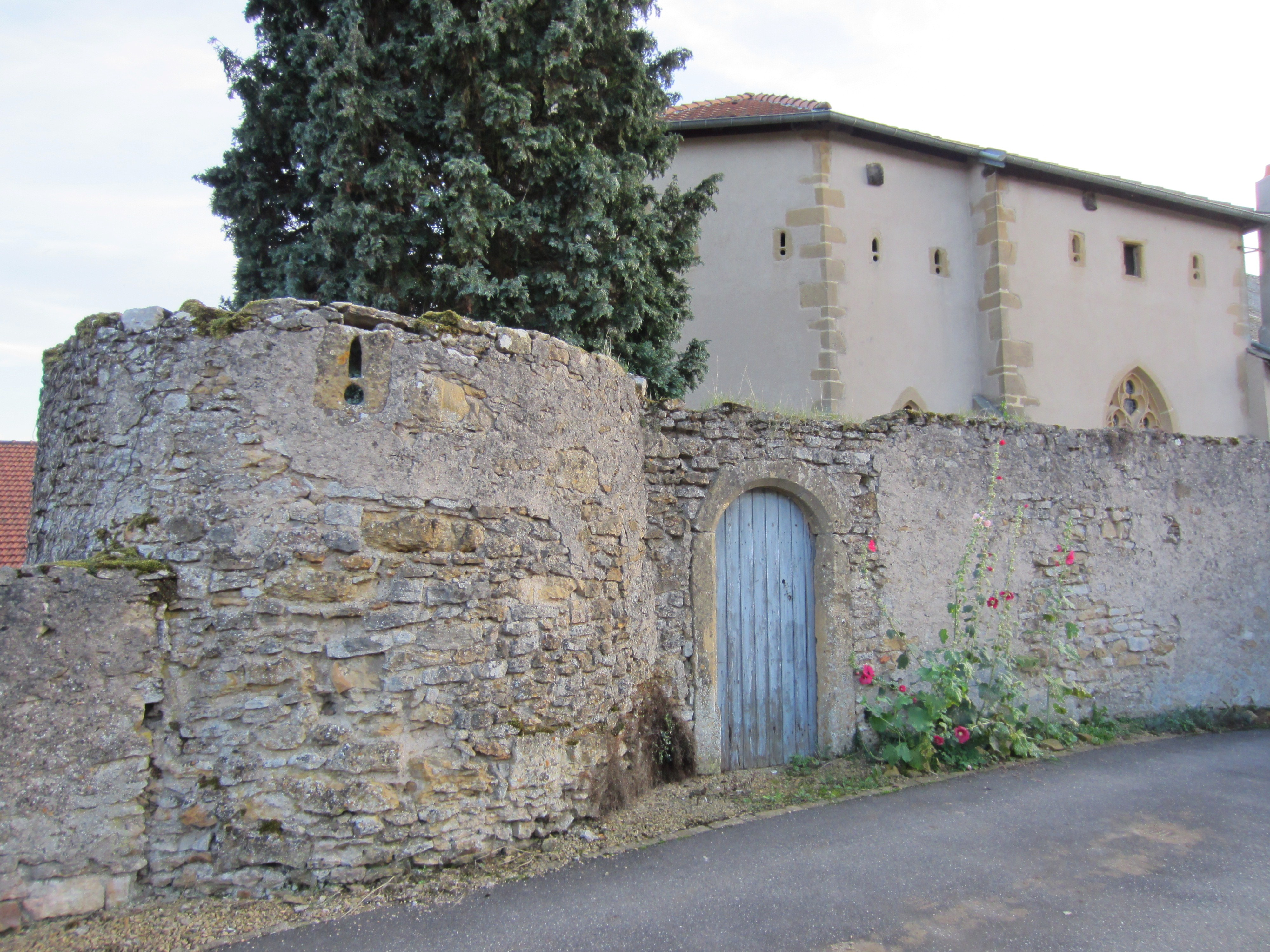 Description fortifications Saulny Date12 September 2011Sourcemon appareil photoAuthorAimelaimePermission(Reusing this file) fortifications Saulny